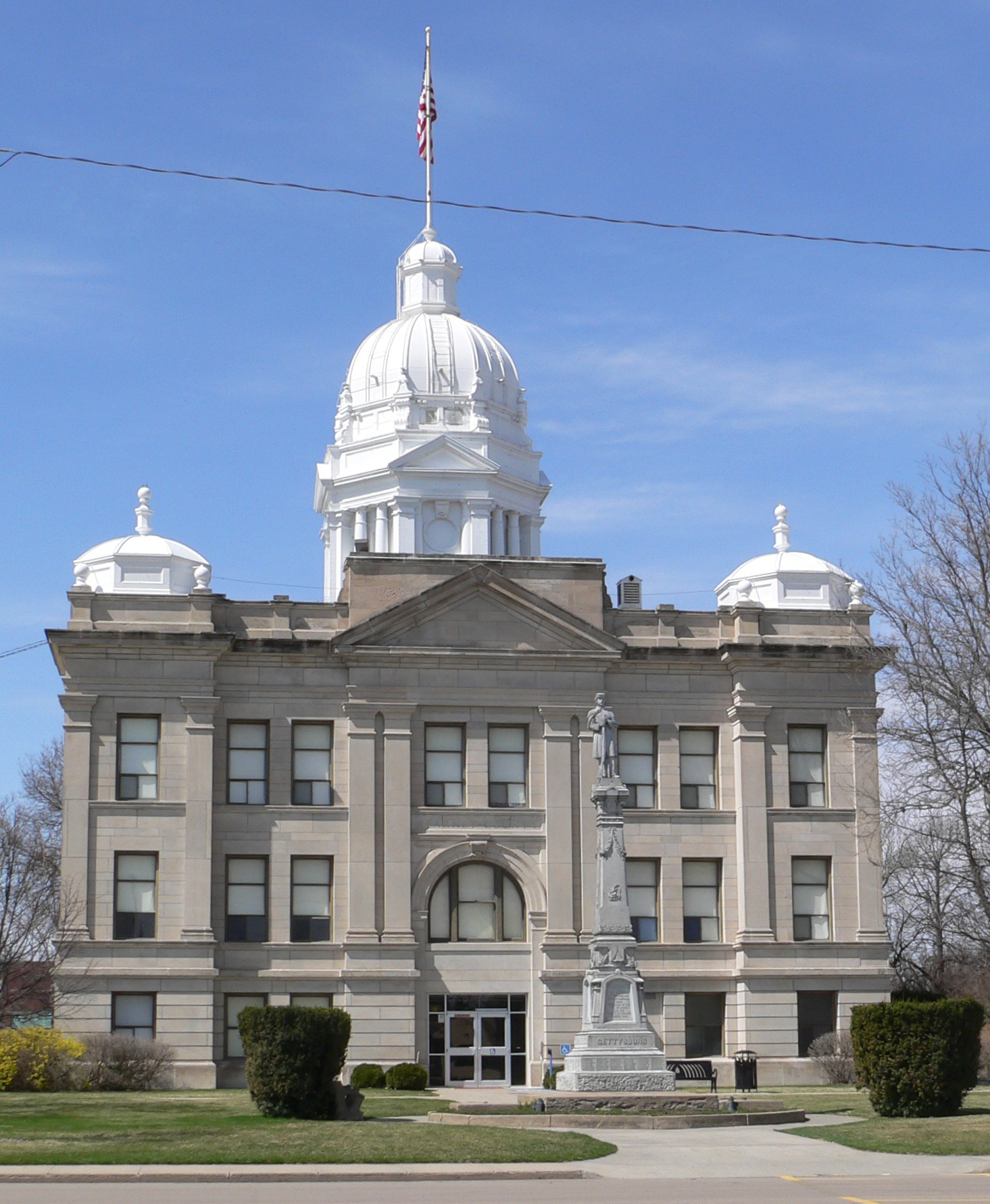 Kearney County Courthouse in Minden, Nebraska; seen from the east. The Classical Revival building was designed by architect George A. Berlinghof and built in 1906. It is listed in the National Register of Historic Places.